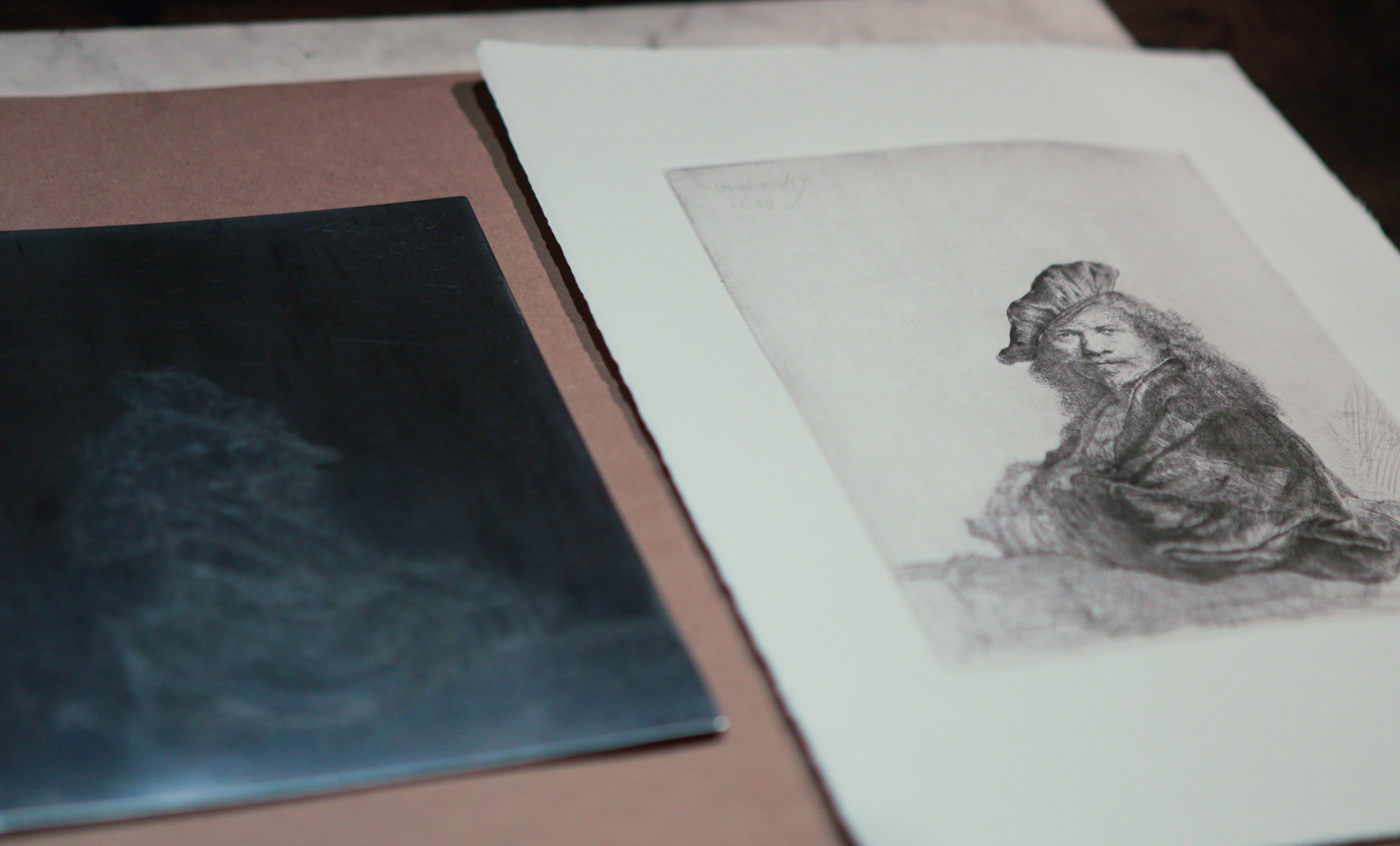 Rembrandt's self portrait leaning on a sill, 1639. Modern day reproduction made at the Rembrandt House Museum.